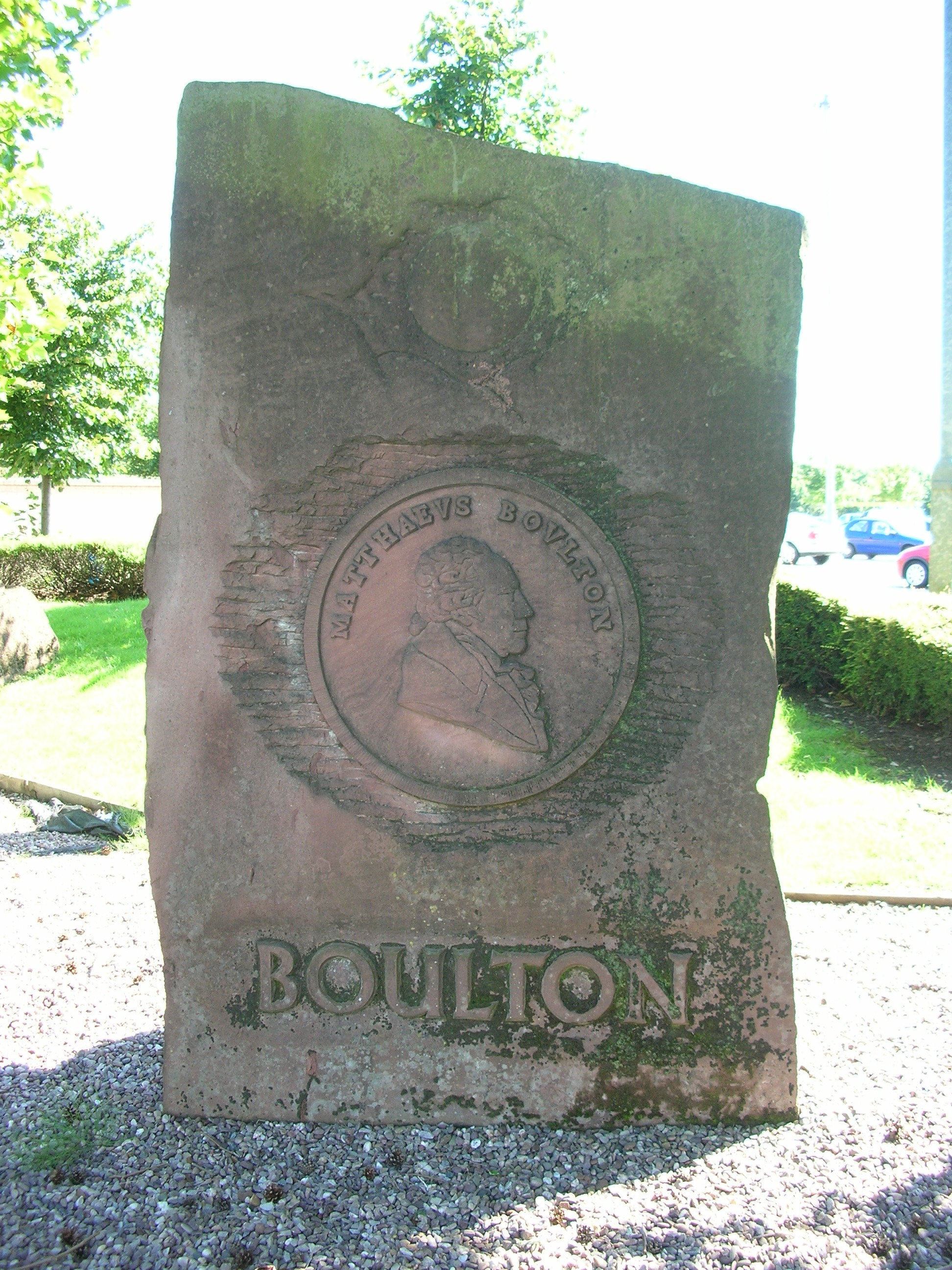 Matthew Boulton. One of the Lunar Society Moonstones, a set of eight carved sandstone memorials to various members of the Lunar Society. Made in 1998 they are in the grounds of a supermarket in Queslett, Great Barr, Birmingham, England. Photographed by me 31 July 2007. Oosoom